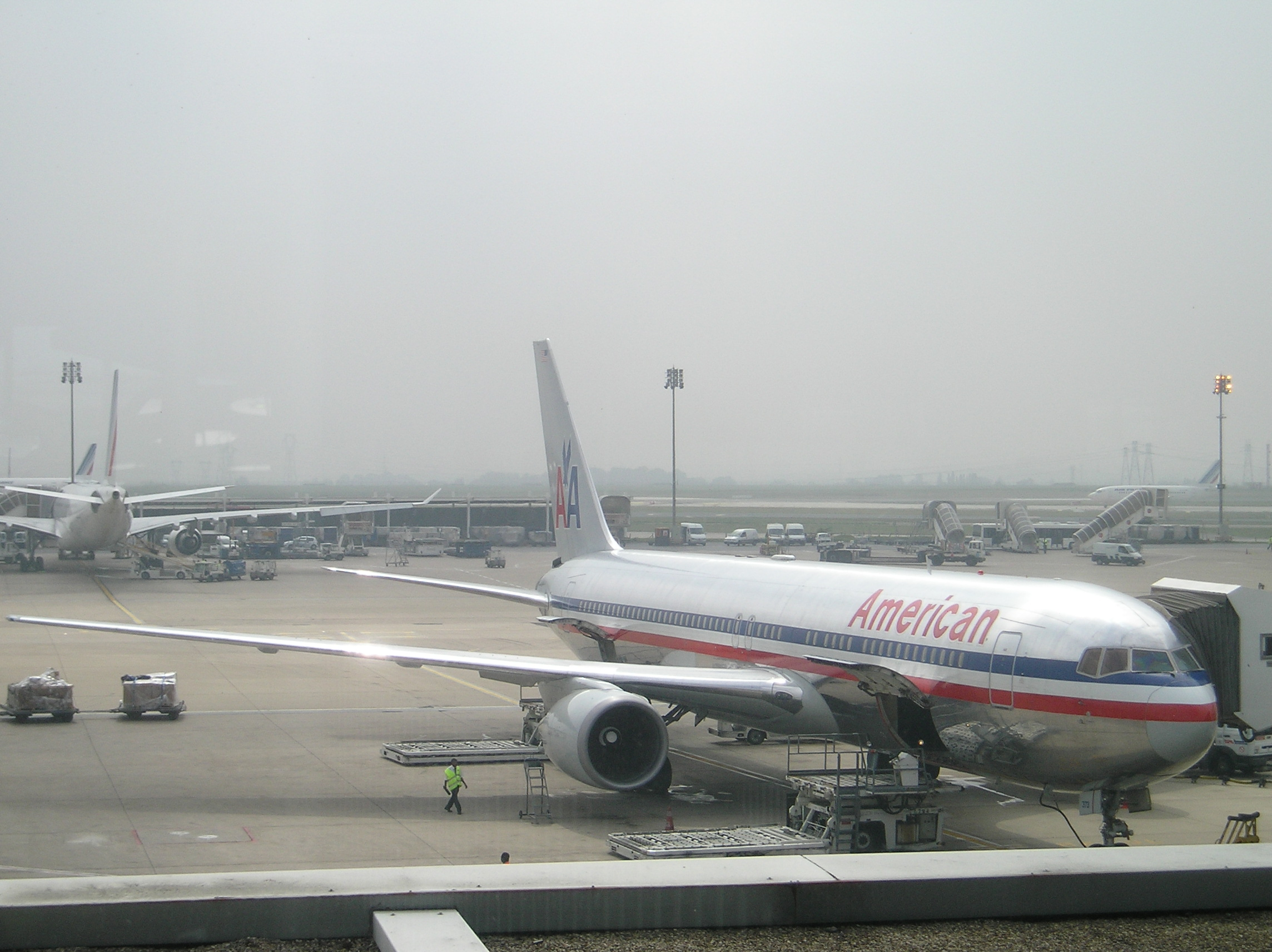 American Airlines Boeing 767-323/ER aircraft (N373AA) at Paris-Charles de Gaulle Airport